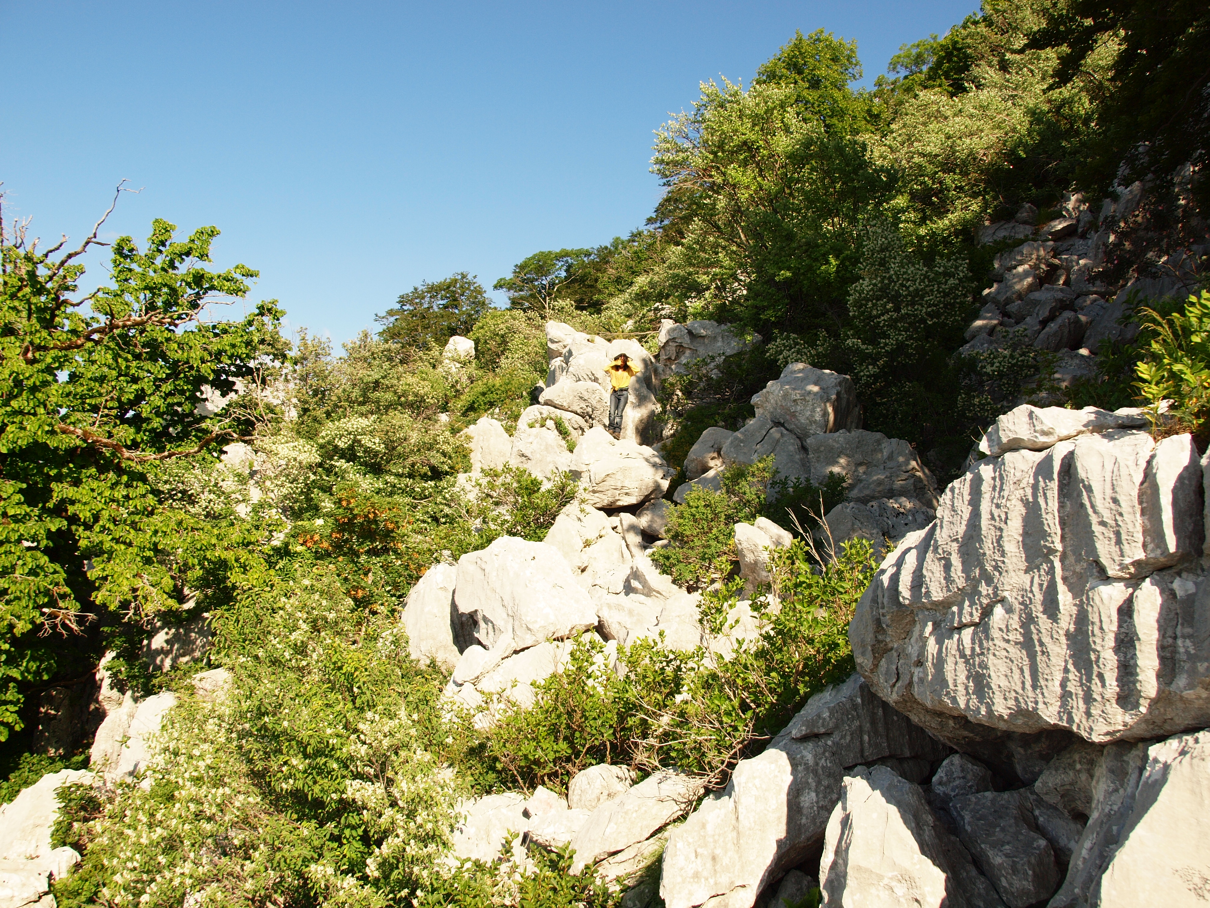 Oromediterranean Sibljak Lonicero-Rhamnion Fuk. leg Pavle Cikovac Mt Orjen, Velje Leto